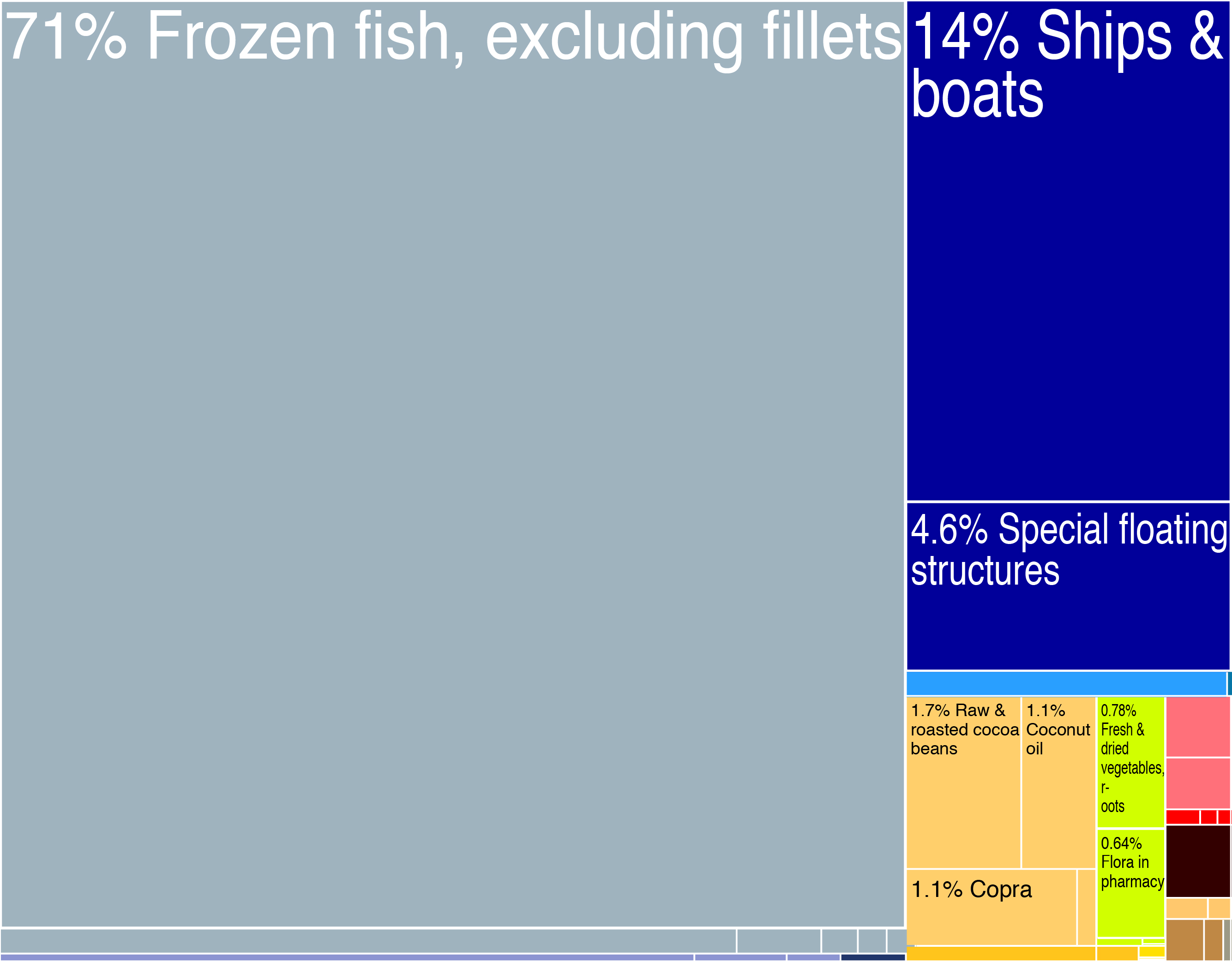 Exports of Vanuatu Treemap. Year 2009